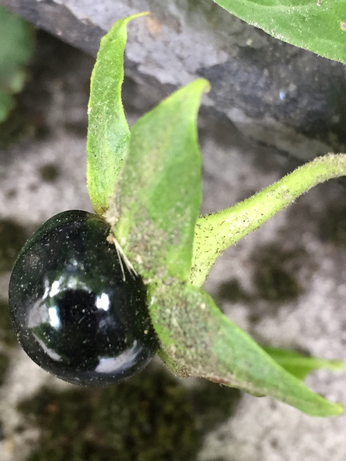 Single berry of Atropa belladonna L. : Deadly Nightshade. In profile, showing both berry and calyx.